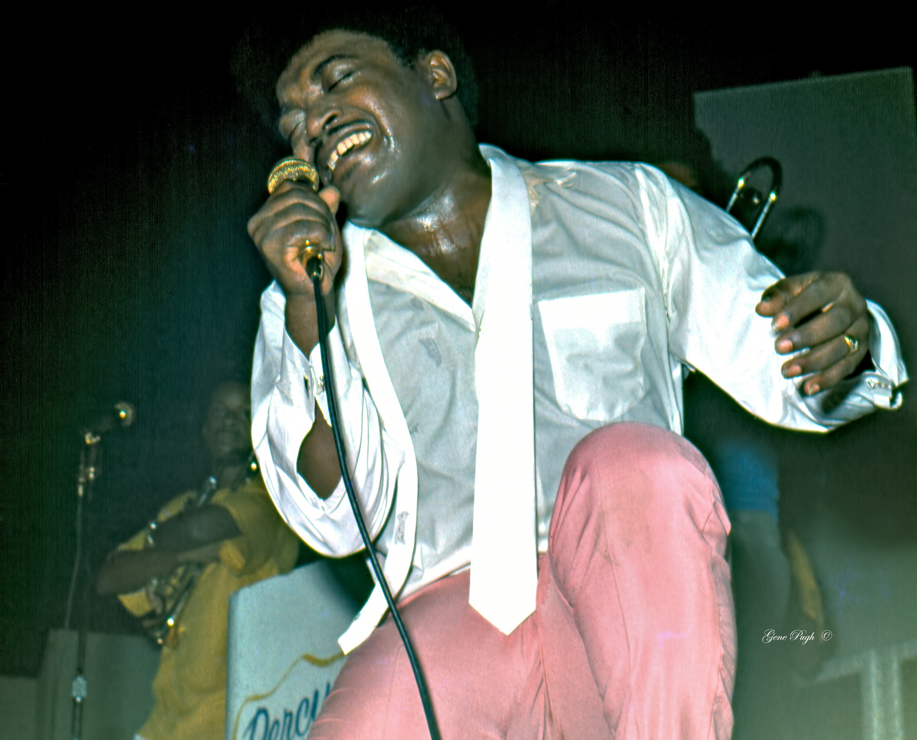 Percy Sledge on tour in 1974